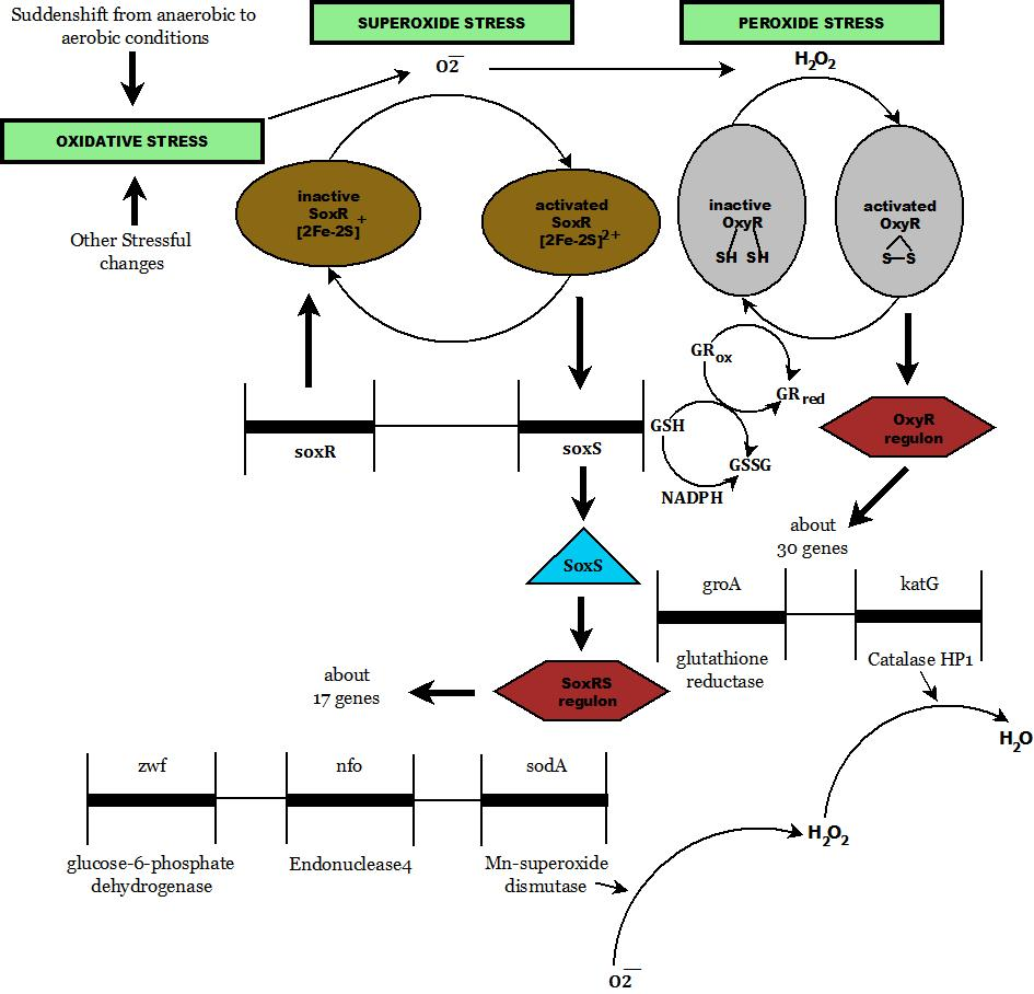 bnmnnn